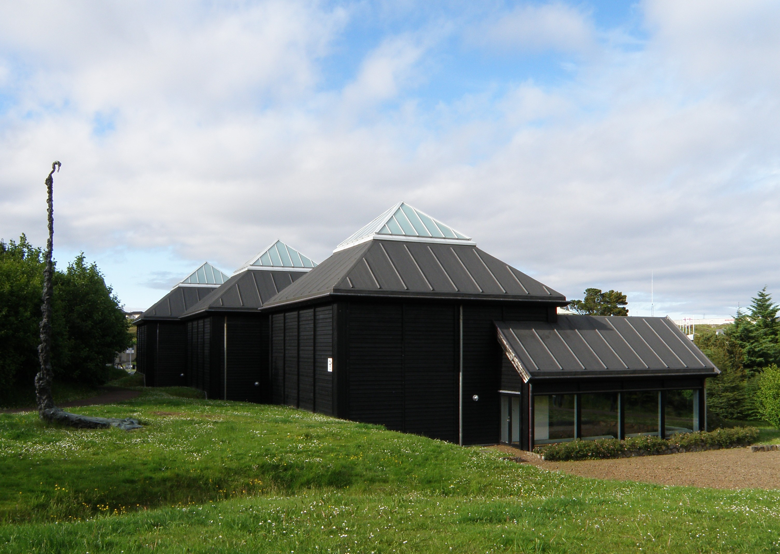 Listasavn Føroya (Art Museum of the Faroe Islands) is located in the northern part of the Park of Tórshavn (Viðalundin), near the football stadium area in Gundadalur and the Nordic House. The art museum houses a variety of Faroese art. The museum was established in 1989. Føroyskt: Listasavn Føroya (Listaskálin) varð stovnaður í 1989. Listasavnið er í norðara enda av viðalundini í Havn, nærhendis niðara vøll í Gundadali. Listasavnið hevur fasta framsýning av føroyskari list og eisini skiftandi framsýningar, t.d. Ólavsøkuframsýningina.